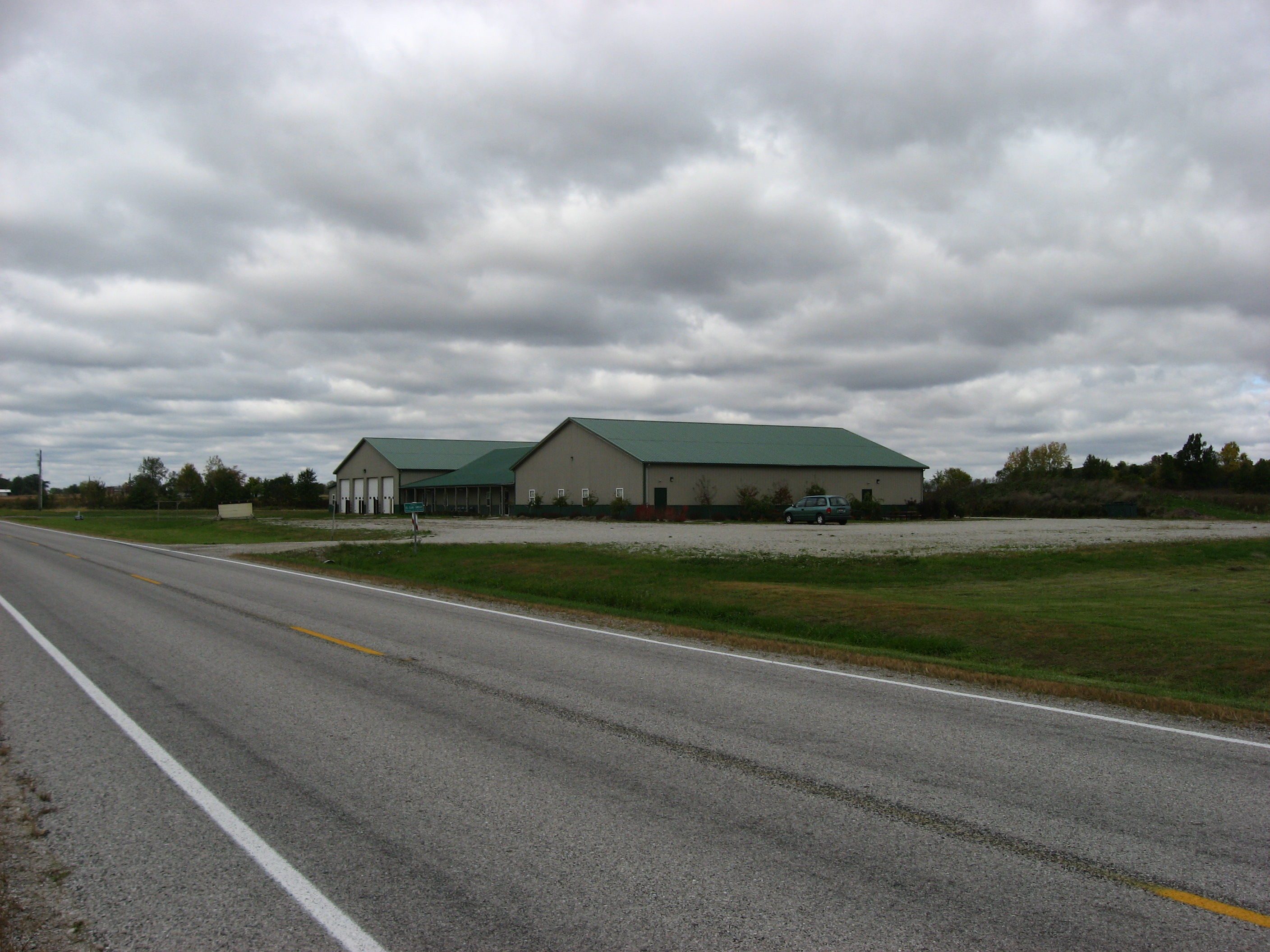 Big Island Township Hall, located on the northern side of State Route 95 east of New Bloomington in Marion County, Ohio, United States.